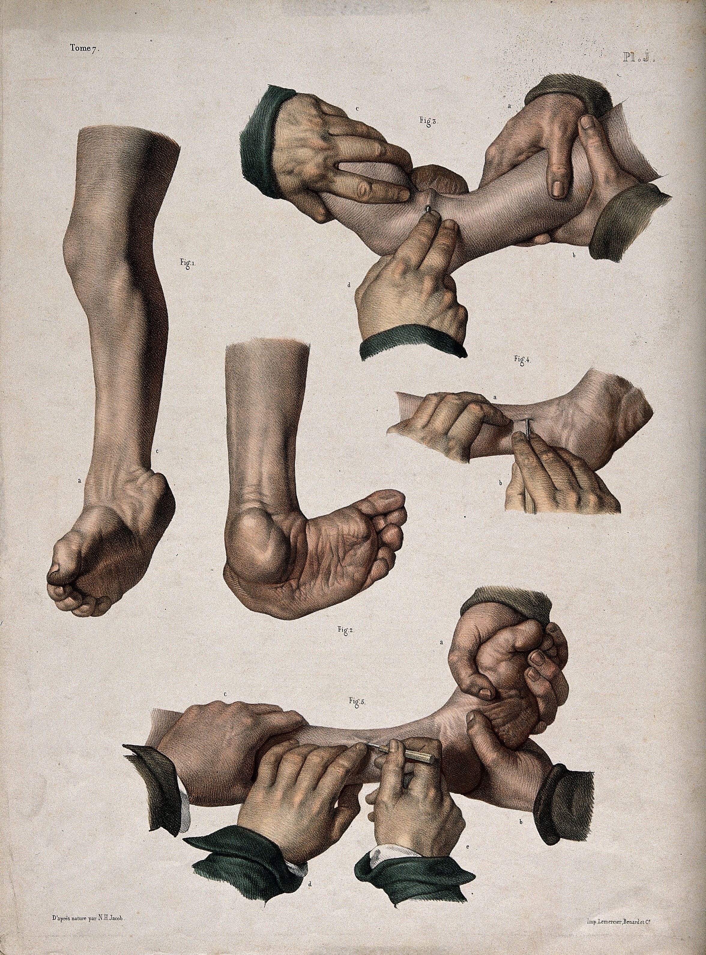 Diagrams illustrating a clubfoot and the operation to cure the condition. Coloured lithograph by N.H. Jacob after himself. Iconographic Collections Keywords: Nicolas-Henri Jacob